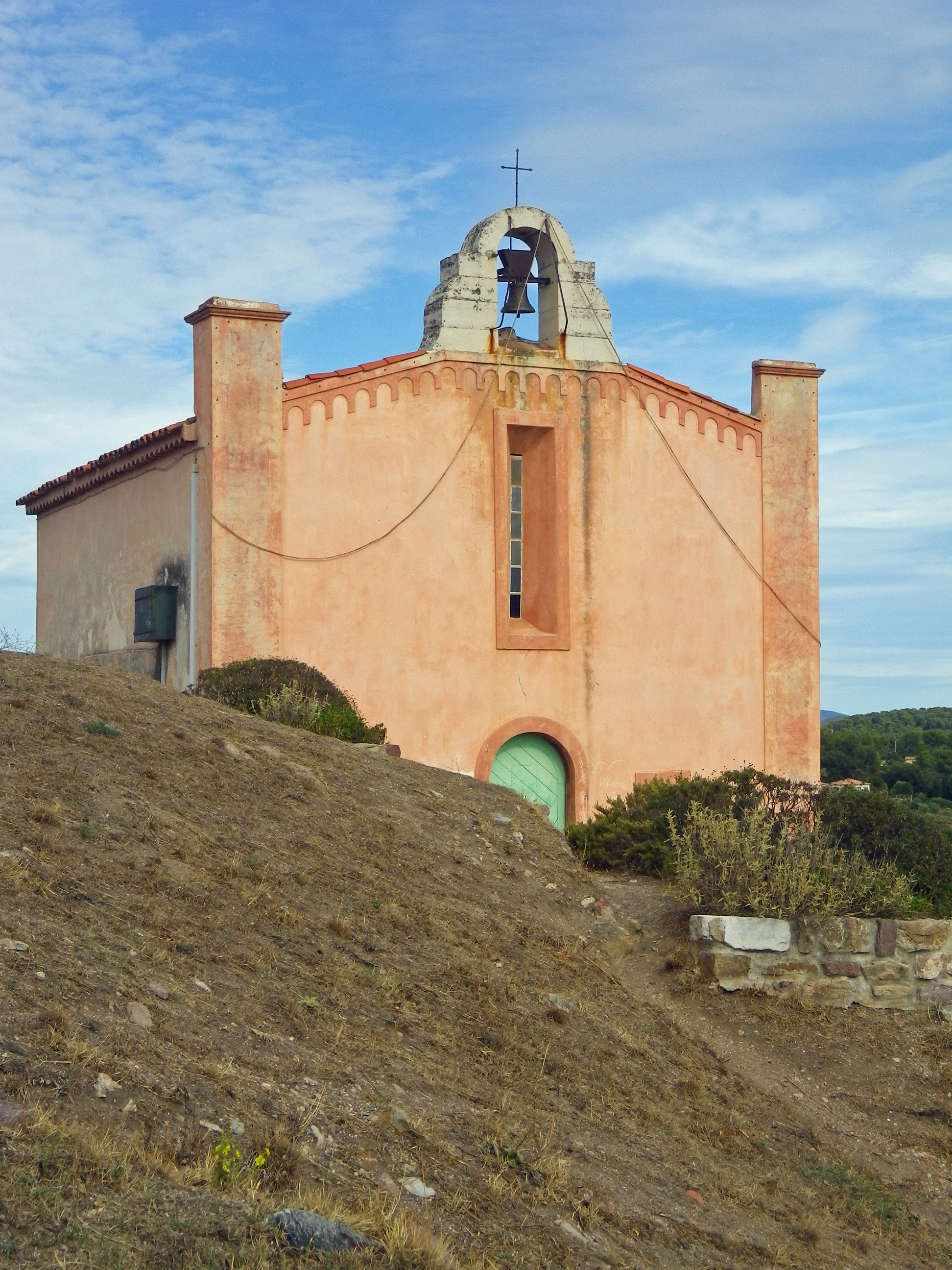 Ste Croix Chapel in Pierrefeu-du-Var (France)